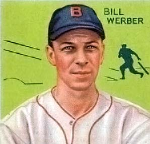 Goudey Baseball card of Billy Werber of the Boston Red Sox. #75 in the 1934 set.